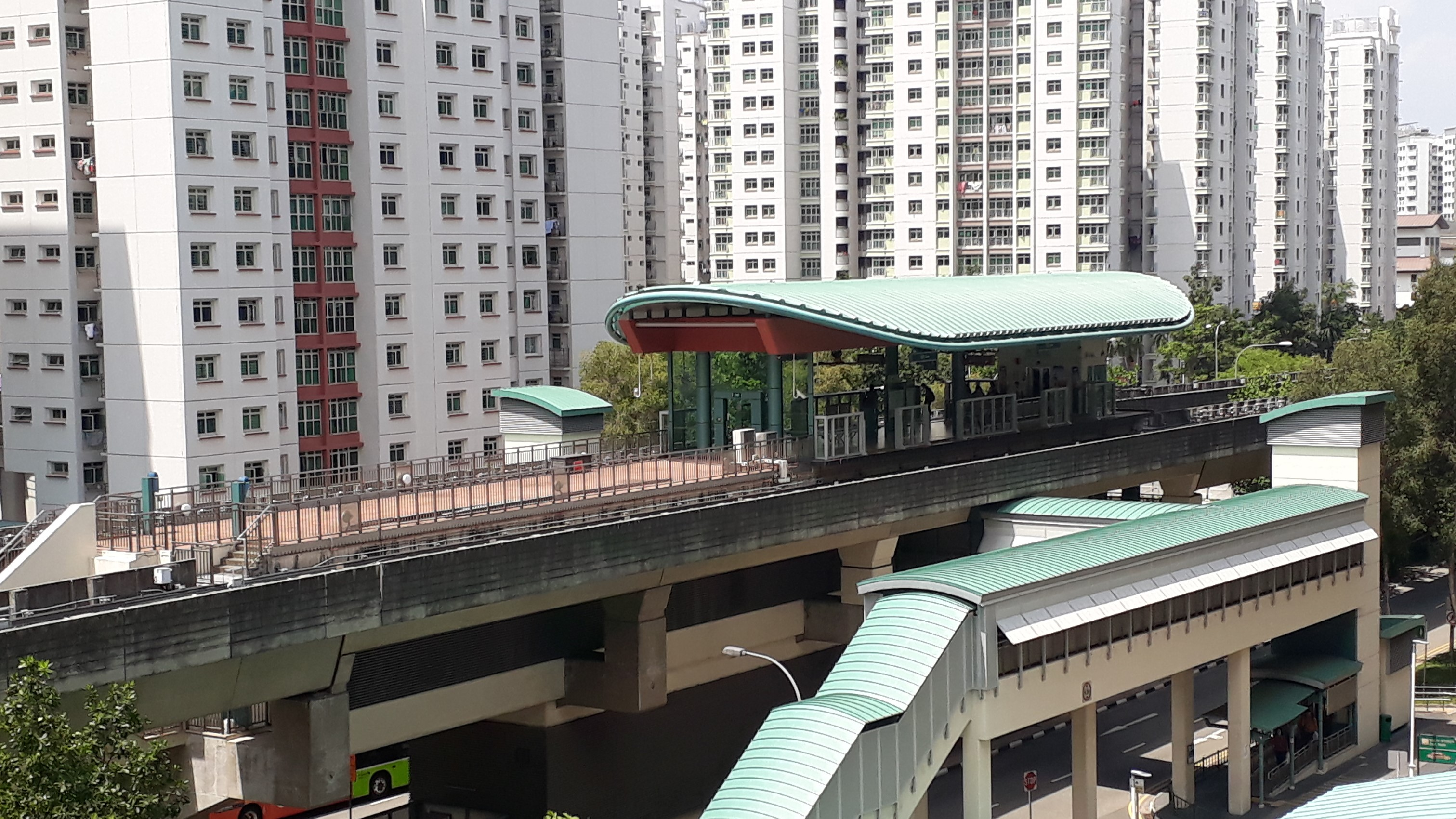 LRT exterior of Cove